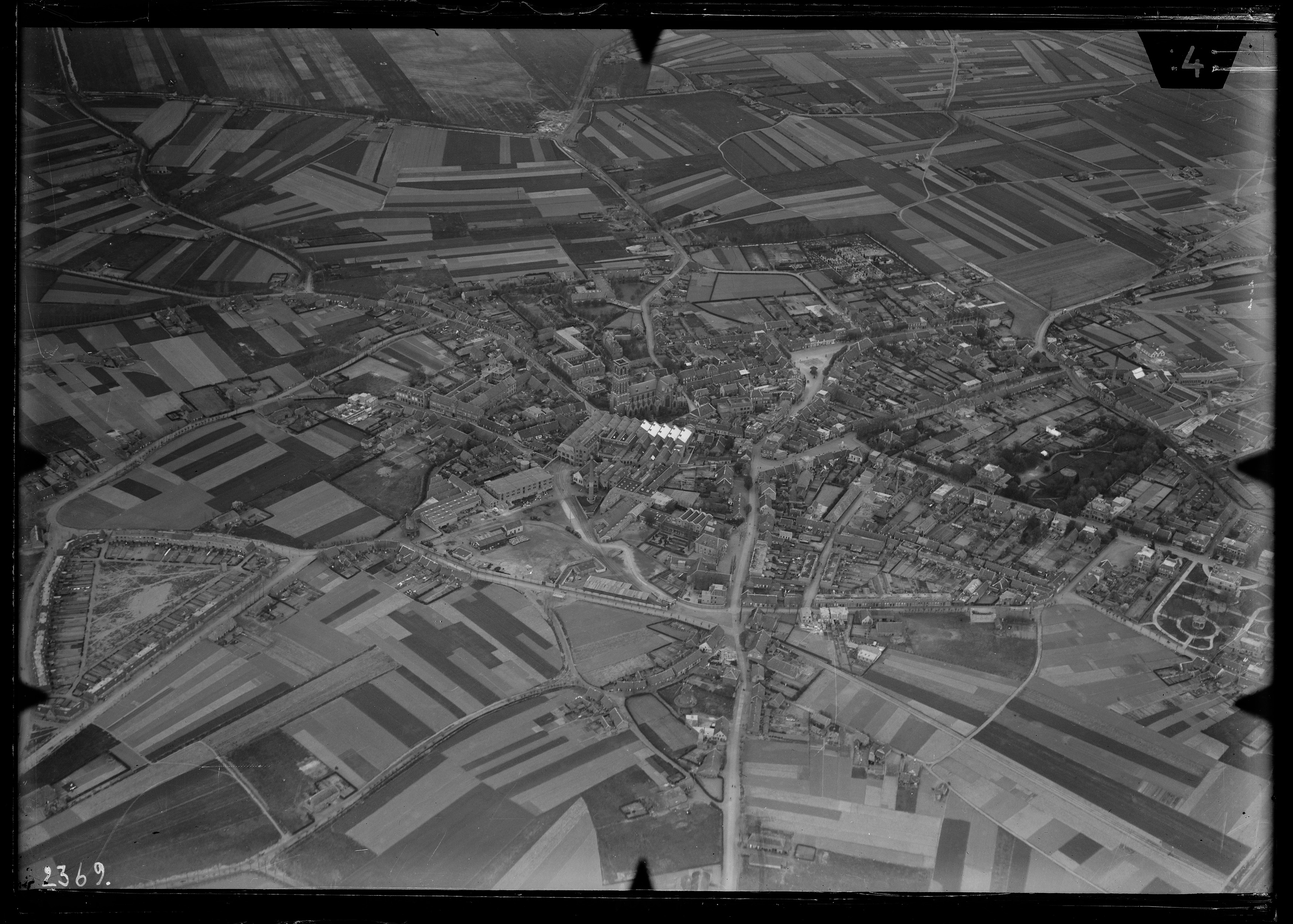 Aerial photograph of Oss, The Netherlands